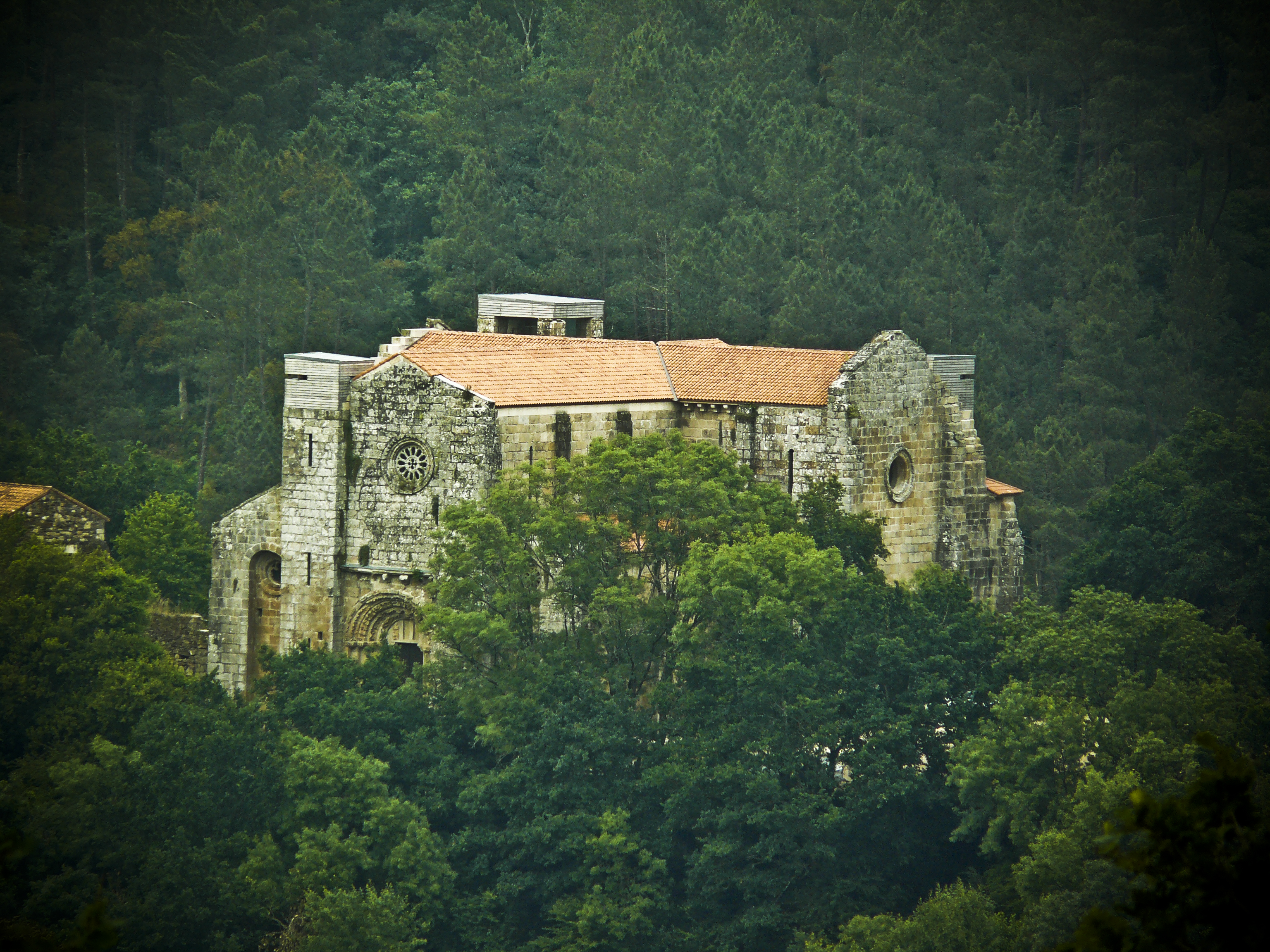 Monastery of Carboeiro